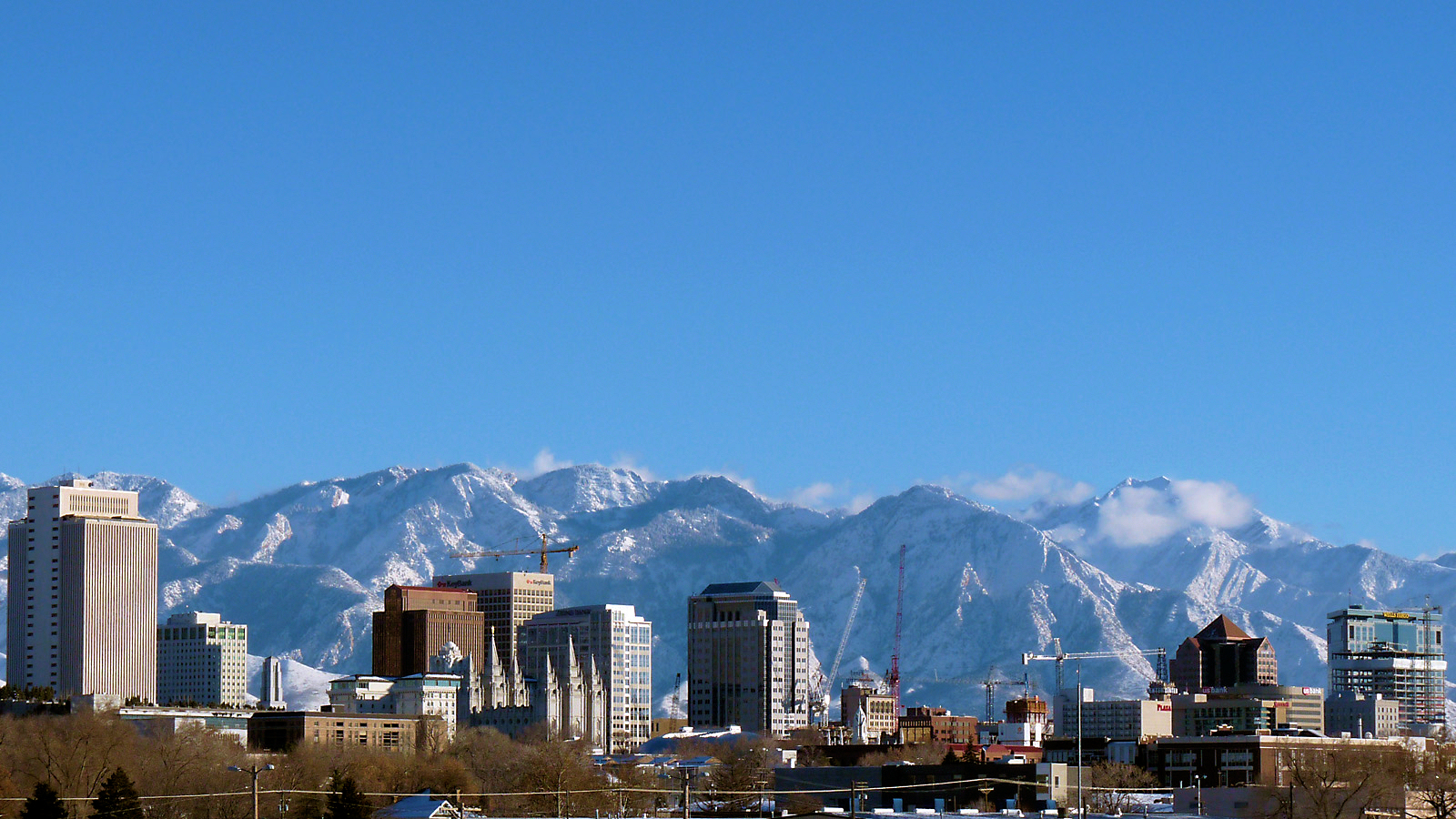 Salt Lake City, Utah, USA in January 2009.